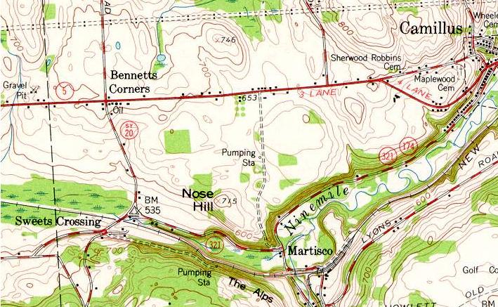 1957 topographic quadrangle of Marcellus, New York